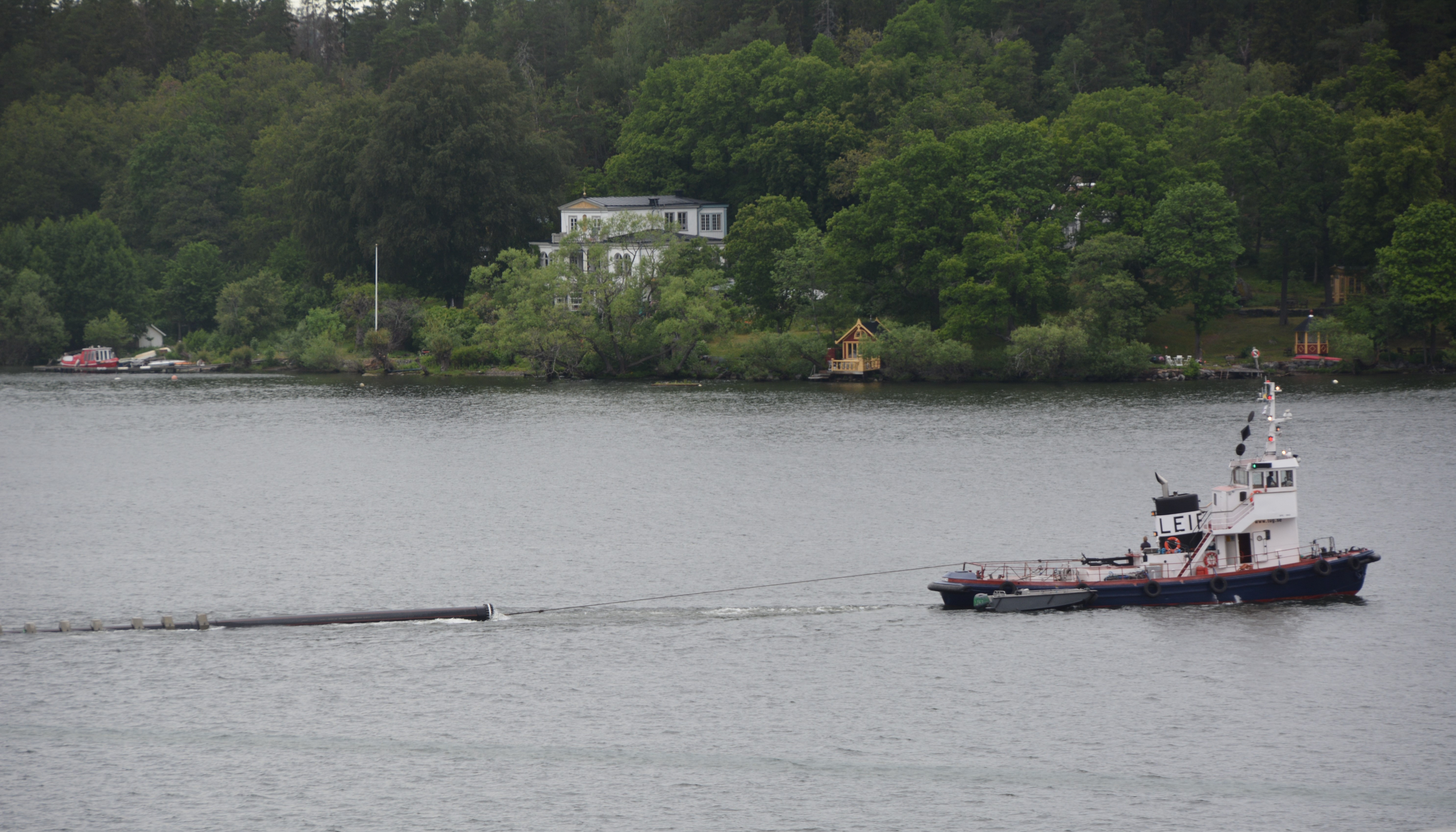 Tub boat Leif moving a long and thick pipe at Lake Mälaren in Stockholm